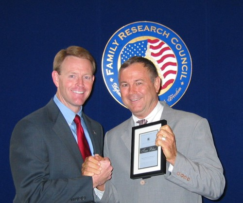 Congressman Dana Rohrabacher Wins the Family Research Council's "True Blue" Award for Consistent Support of the Family WASHINGTON, D.C. - Congressman Dana Rohrabacher has been recognized for his unwavering commitment to the family when the Family Research Council (FRC) honored him with the annual "True Blue" award at a reception on Capitol Hill Tuesday evening. The award honors members of the House and Senate who have exhibited extraordinary leadership and dedication to the defense of family, faith, and freedom (For a listing of the "True Blue" members of Congress, visit Family Research Council.) According to FRC's new scorecard covering House and Senate votes during the 108th Congress, recipients of the award voted for pro-life and pro-family issues on a variety of occasions.